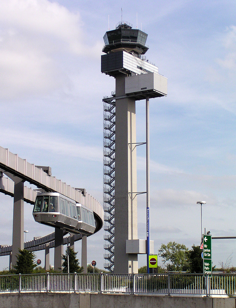 Tower with Skytrain at Airport Düsseldorf International (EDDL)